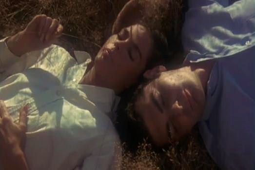 Ali MacGraw and Richard Benjamin in Goodbye, Columbus (1969) - trailer (cropped screenshot)